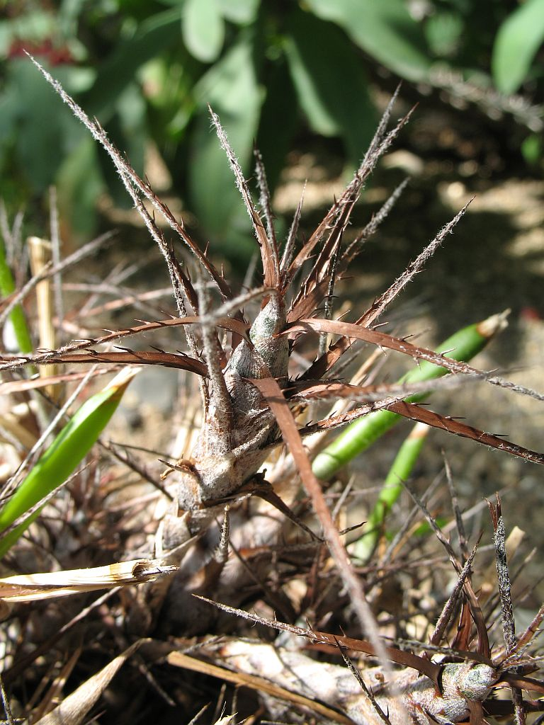 Pitcairnia prolifera, in cultivation at the Botanical Garden of Heidelberg, Germany. Plant in leafless state during the winter.